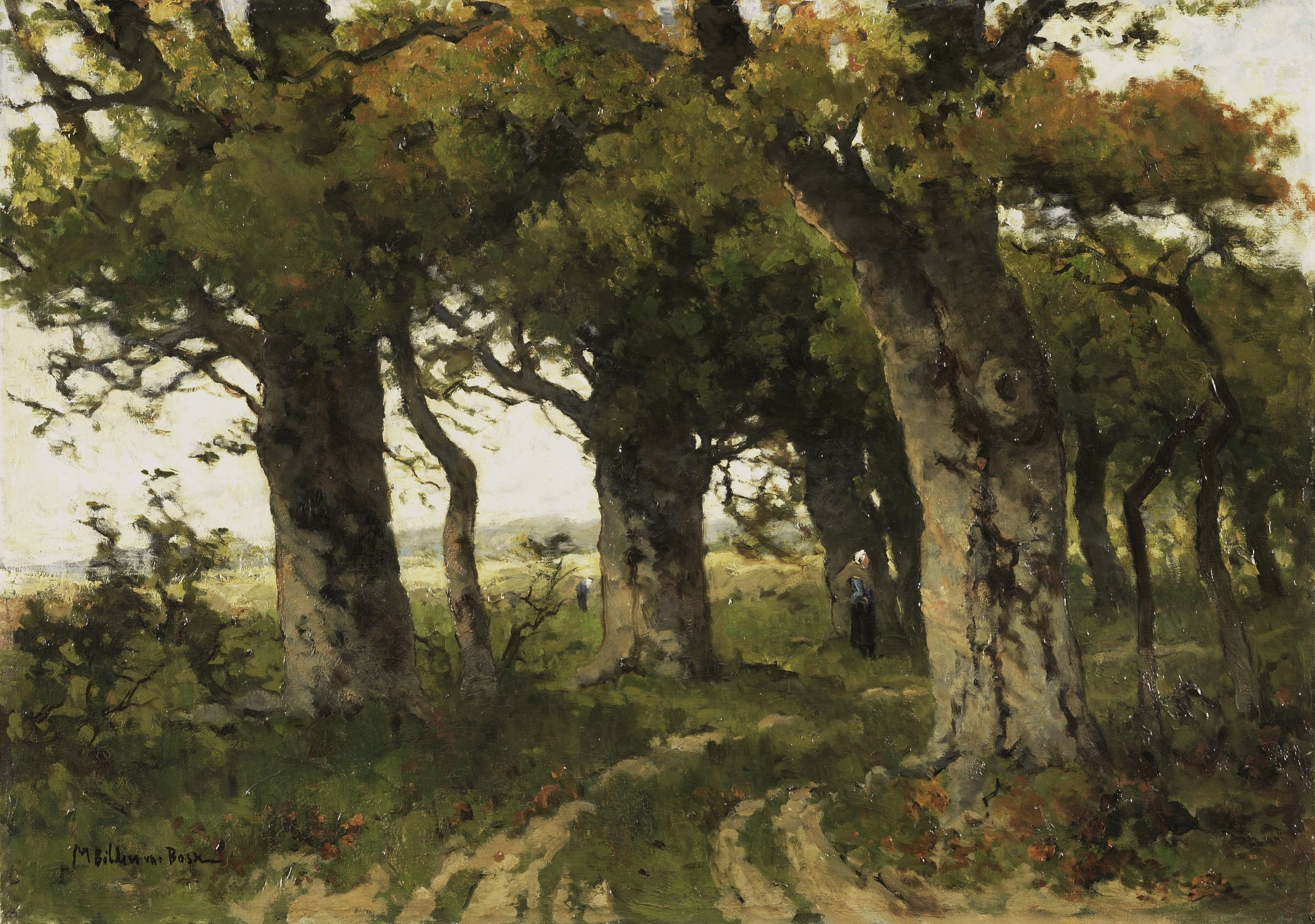 Landscape with a dirt road in between two rows of oak trees.